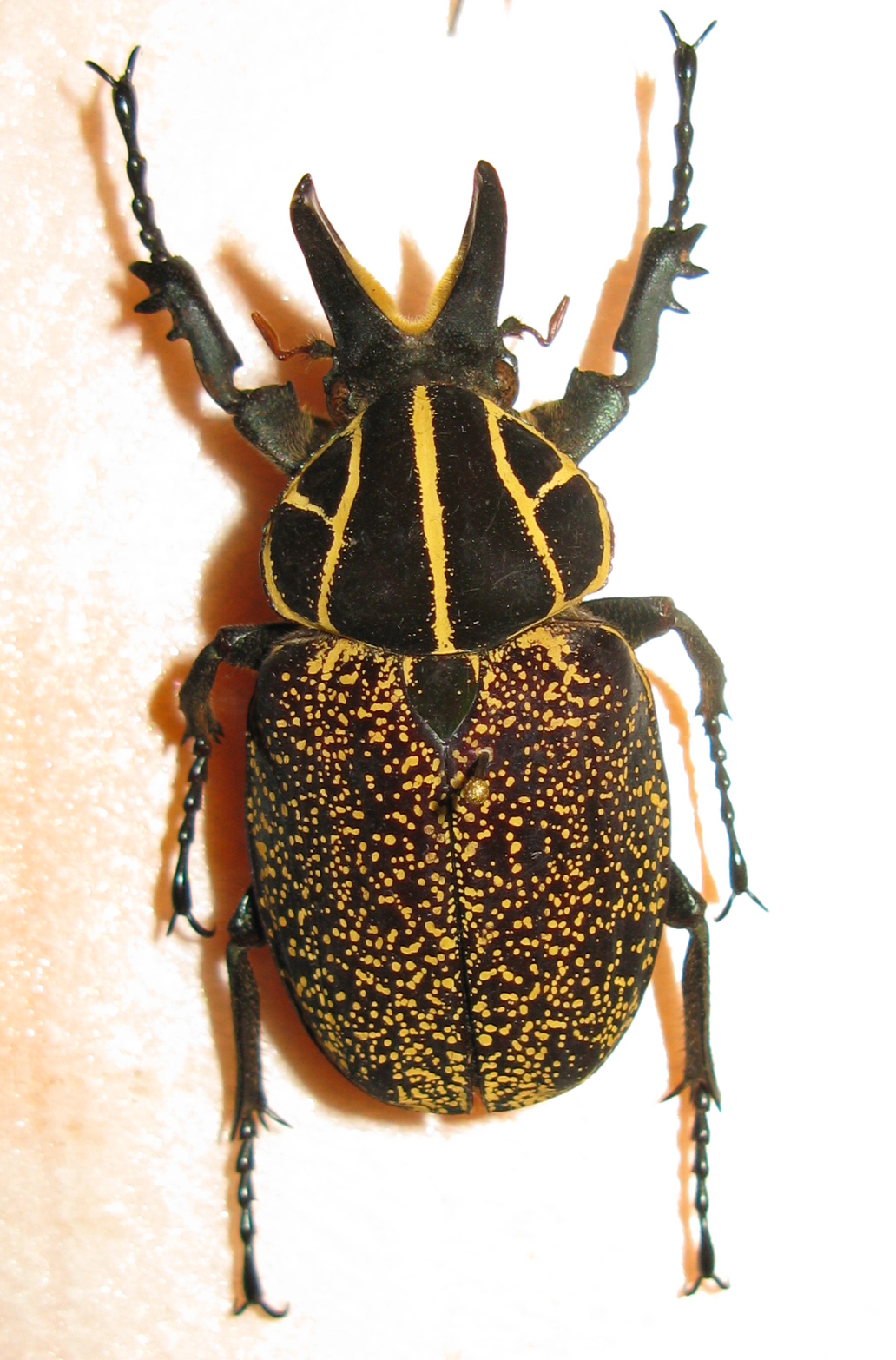 Inca clathrata (male)